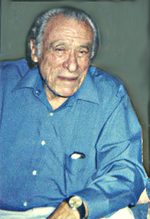 Cropped by "Bukowski en su casa de San Pedro en 1988, con los escritores Mary Ann Swissler y Mat Gleason".